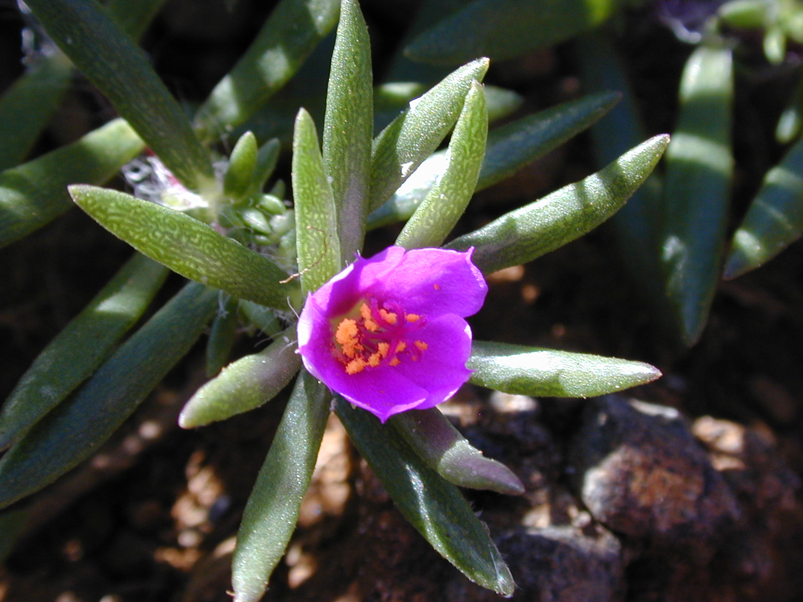 Portulaca pilosa (flower and leaves). Location: Maui, Molokini